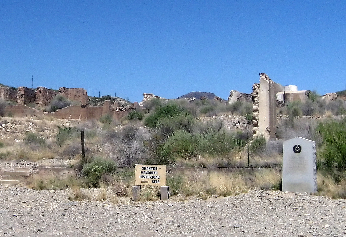 Shafter was once a major silver mining town. It was considered the silver capital of Texas.